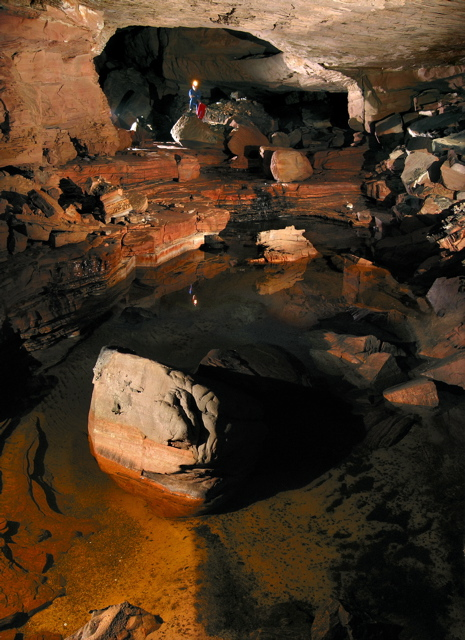 Cueva Ojos de Cristal in Guiana Highlands Autor fotografie M. Audy